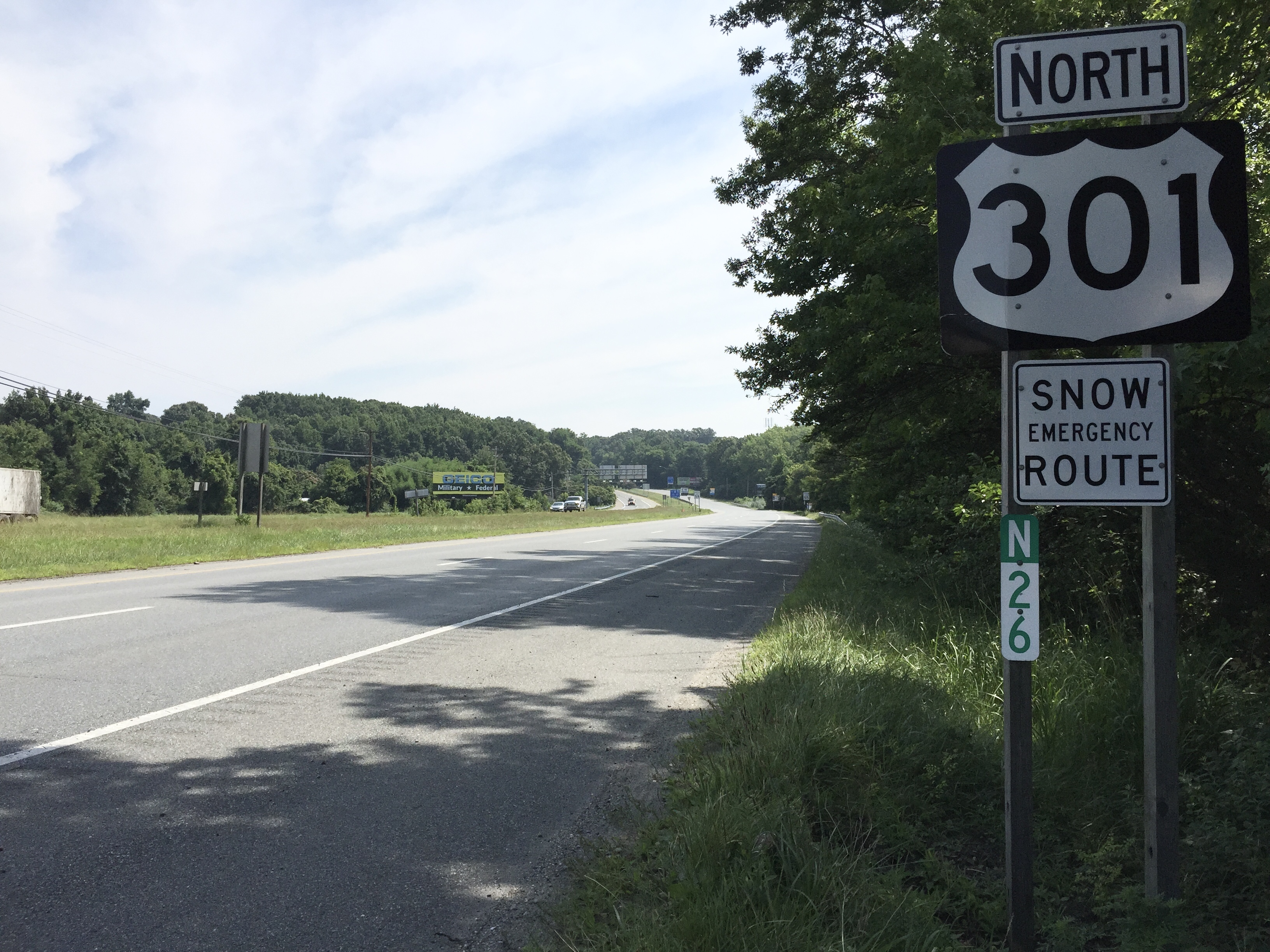 View north along U.S. Route 301 (Crain Highway) just north of Orland Park Road in southern Charles County, Maryland